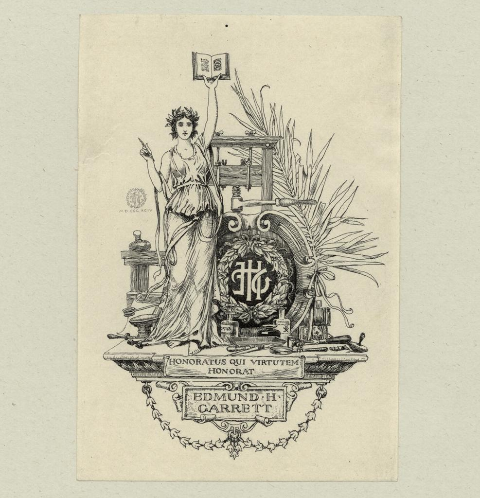 Pictorial Bookplates. Subject: Women; Books. Subject - Personal Name: Garrett, Edmund H.